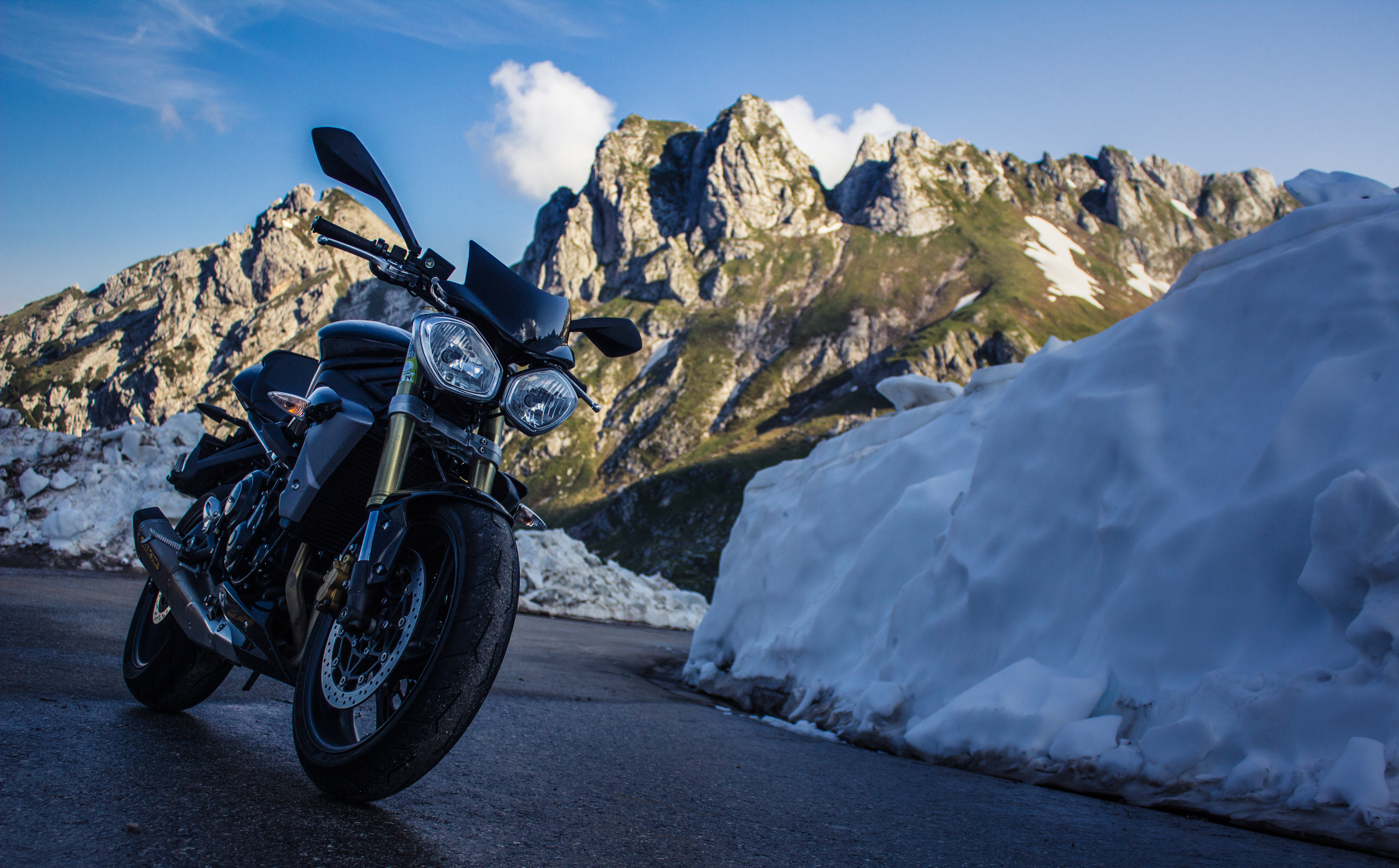 Mangart and a Street Triple